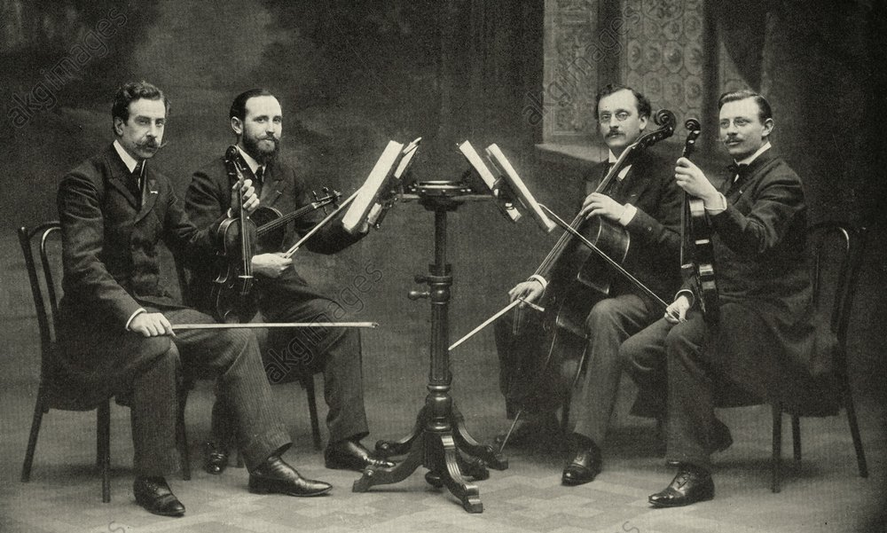 Hayot String Quartet (active in France in 1895-1905). Left to right: Maurice Hayot (first violin), Firmin Touche (second violin), Joseph Salmon (cello), Frédéric Denayer (viola). From: Die Musik, Illustrierte Halbmonatsschrift, 3. Jahrgang, Heft 15..